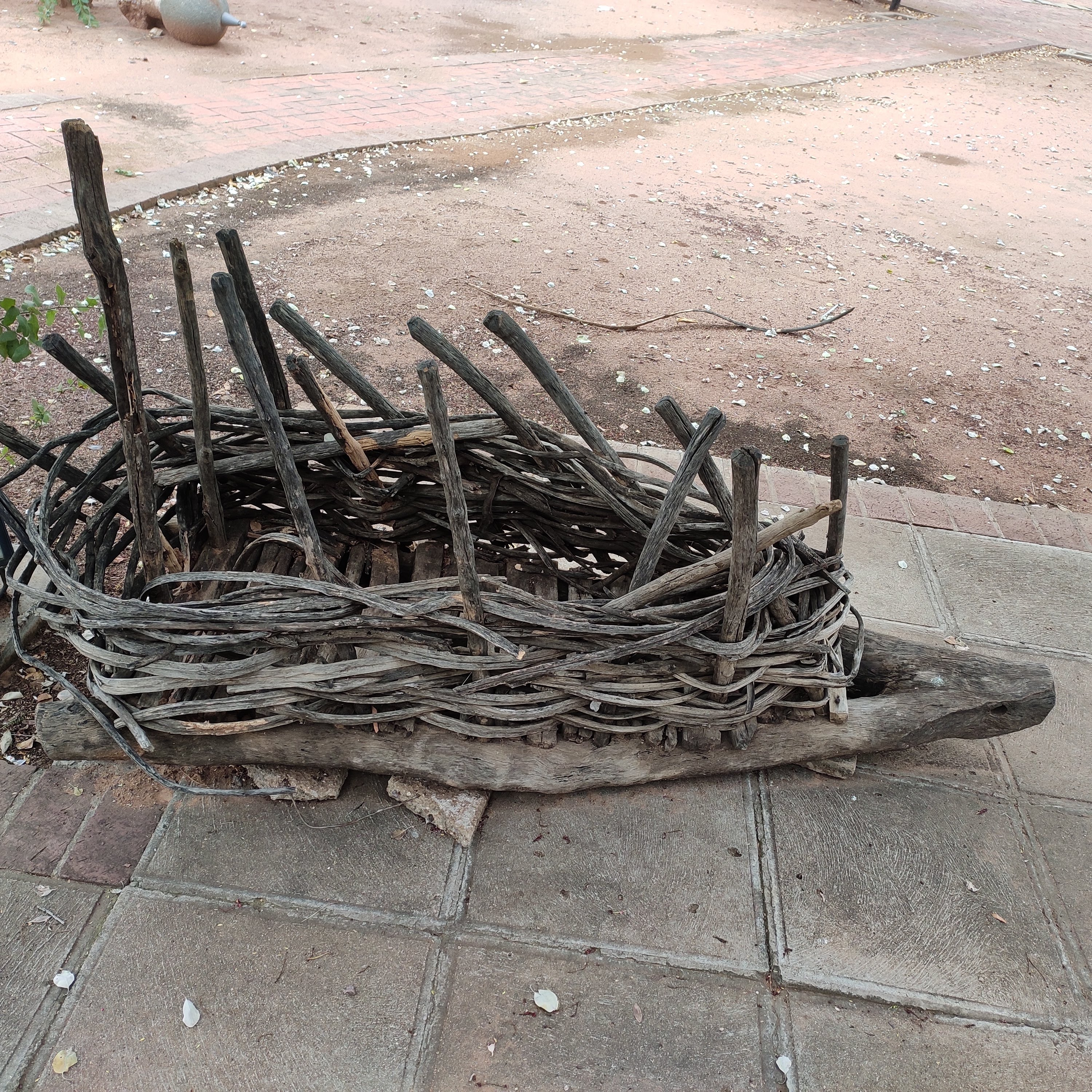 Sledge at Gaborone National Museum This is an image with the theme "Africa on the Move or Transport" from: Botswana